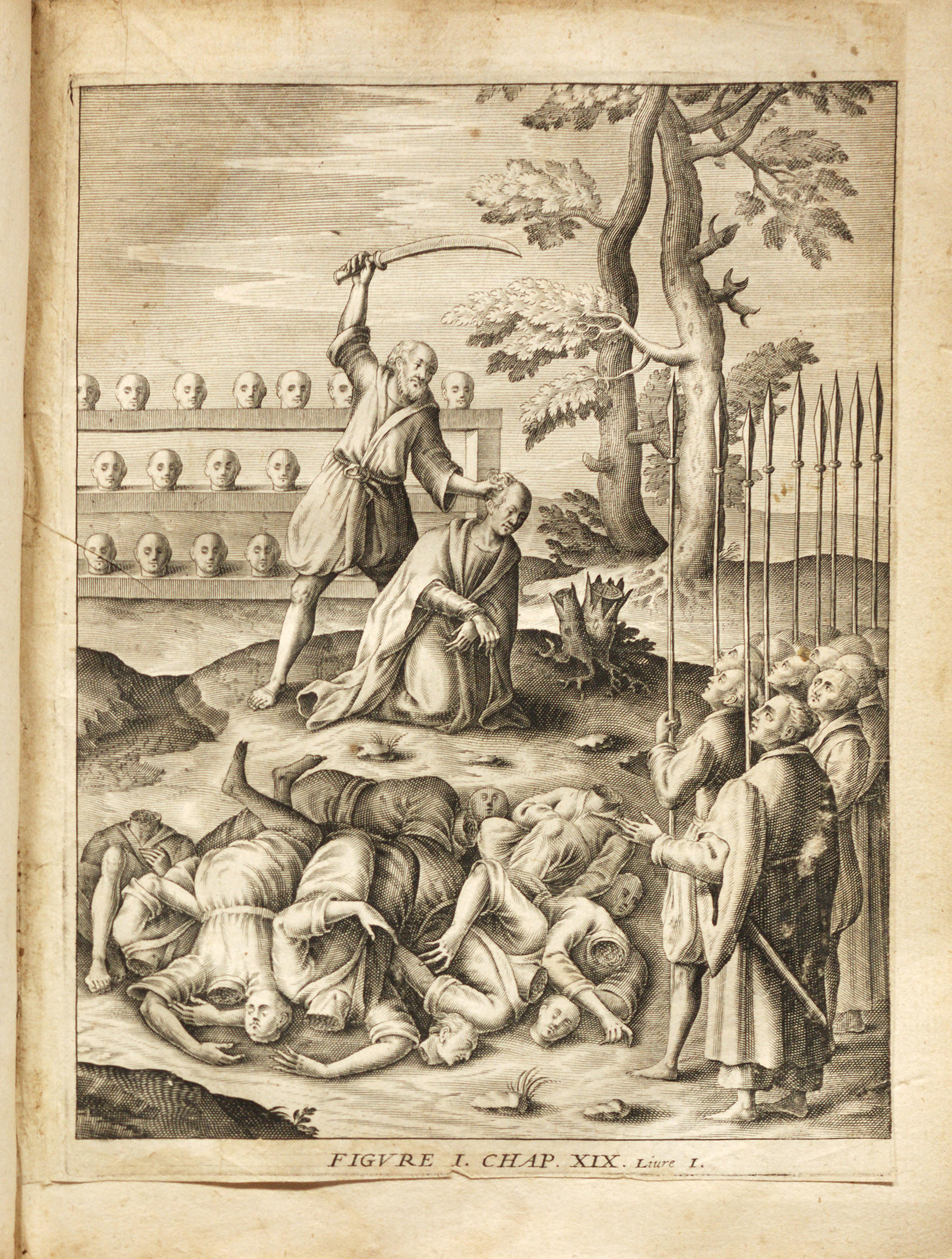 Illustration from the 1624 French translation of Nicolas Trigault (1623): De Christianis apud Japonios triumphis.